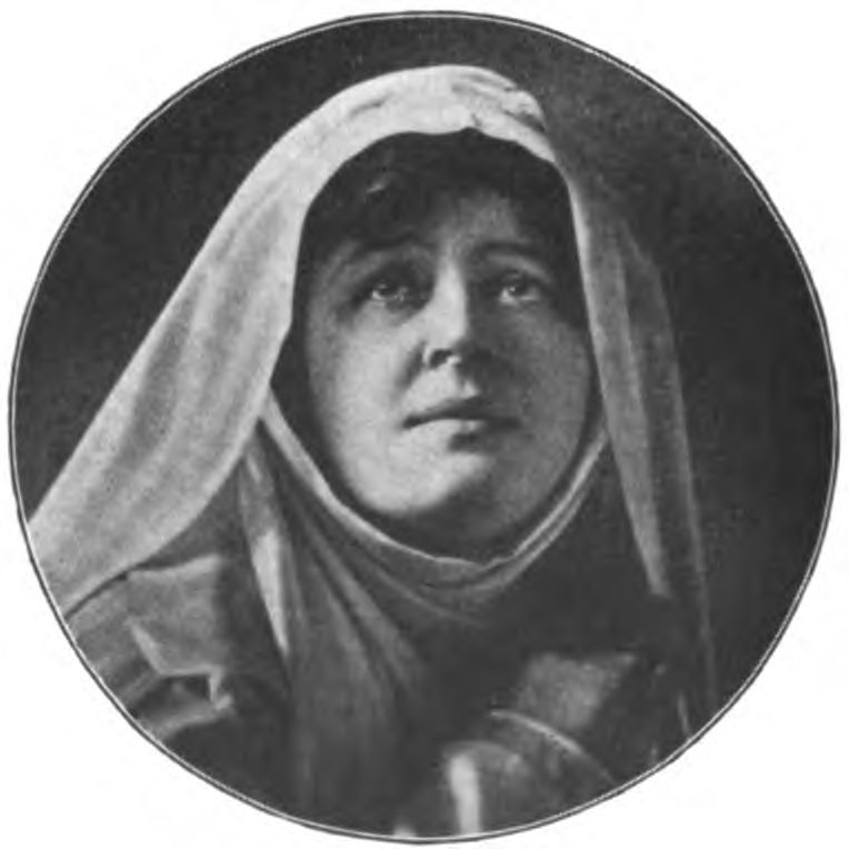 Maude Fay as Chrysothemis in the opera Elektra by Richard Strauss. Note: Although the publication from which this image is taken identifies the role as Chrysothemis, a different image of Maude Fay in this costume identifies the role as Elisabeth (see File:Maude Fay as Elisabeth - Fay Family website.jpg.)